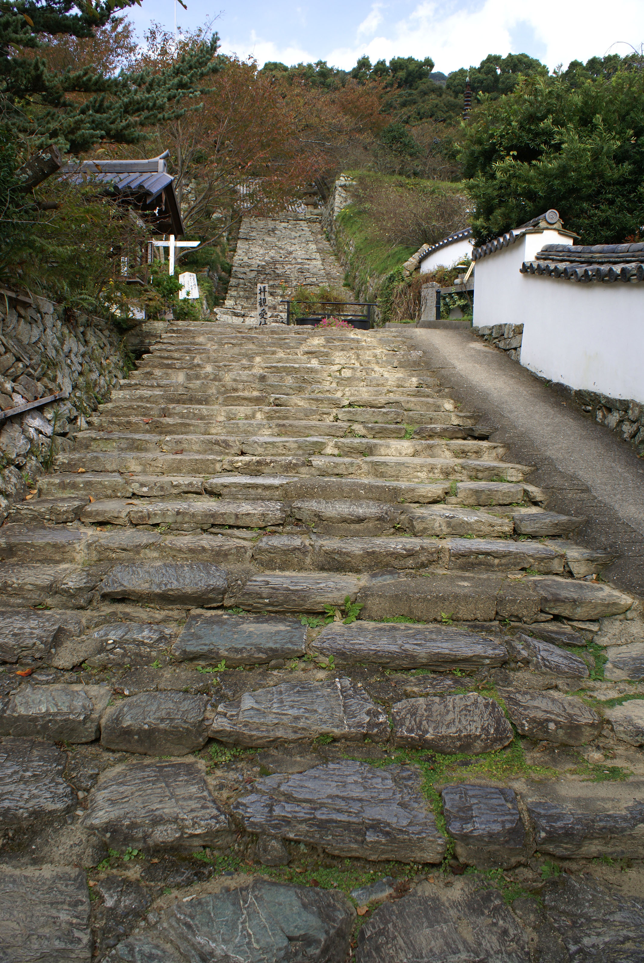 Chōhō-ji in Kainan, Wakayama prefecture, Japan